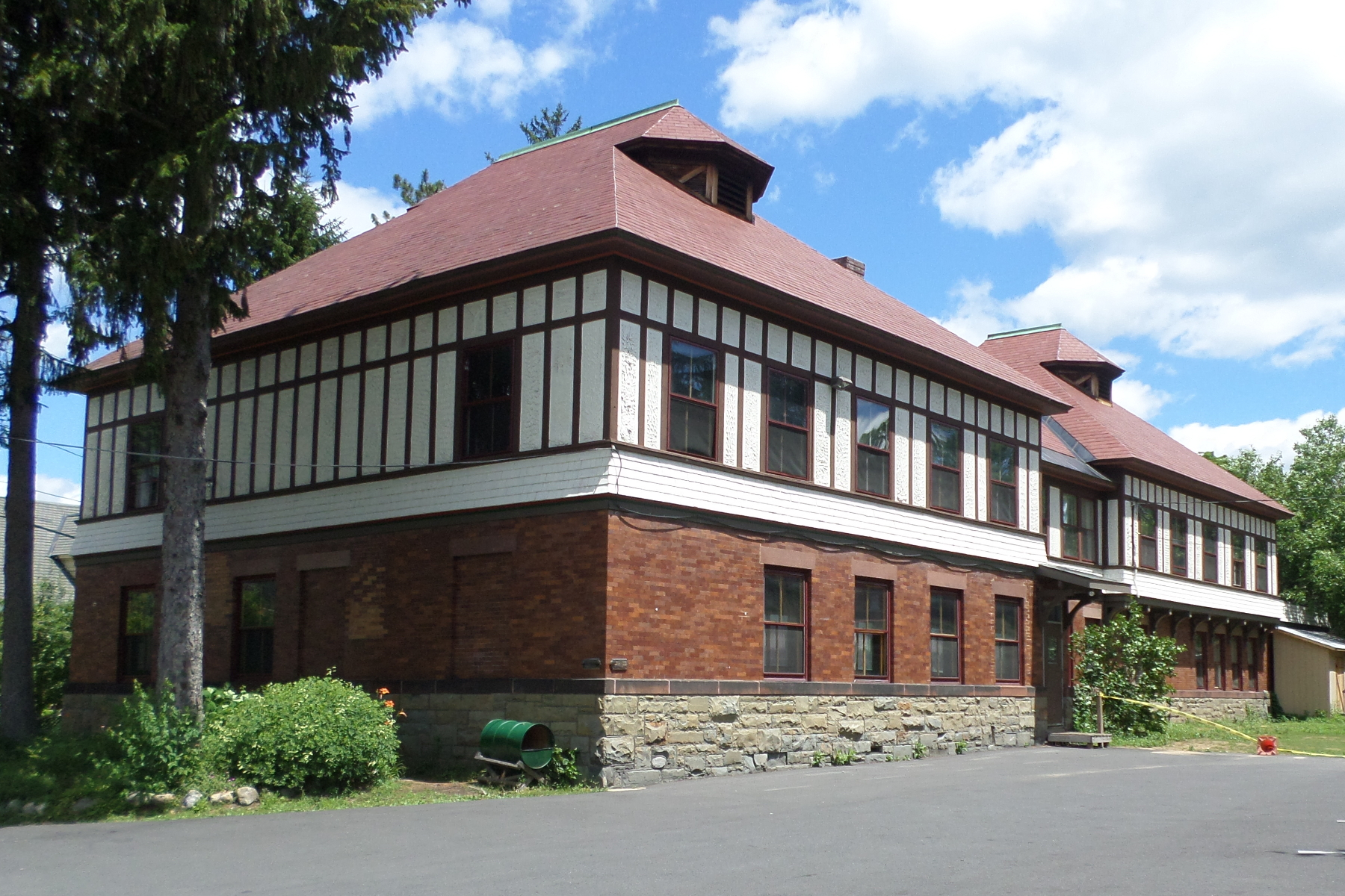 Stables designed by R. Newton Brezee for Douglas Mabee (1902)